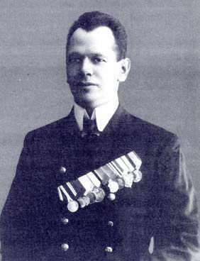 Ivan Kharitonov. Cook for the Russian Tzar Nicolas II. Murdered by communists together with Tzar's family members and other servants in 17th July 1918 in Ekaterinburg, Russia.